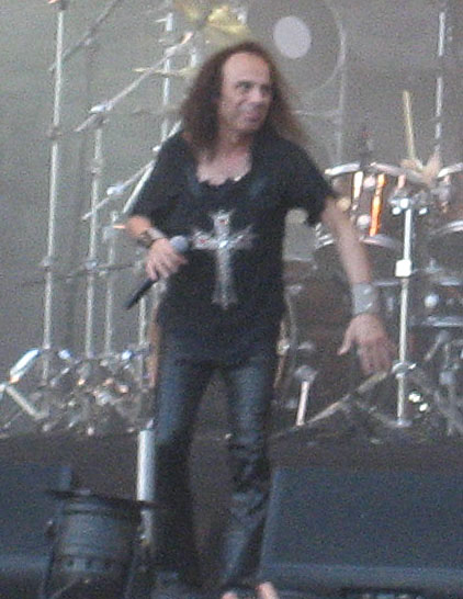 Ronnie James Dio at Sauna Open Air Metal Festival with Heaven & Hell